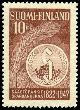 Savings bank of Finland - 125 years